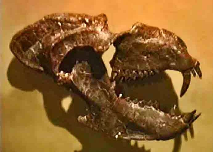 Skull of Exaeretodon frenguelli, at the Harvard Museum of Natural History